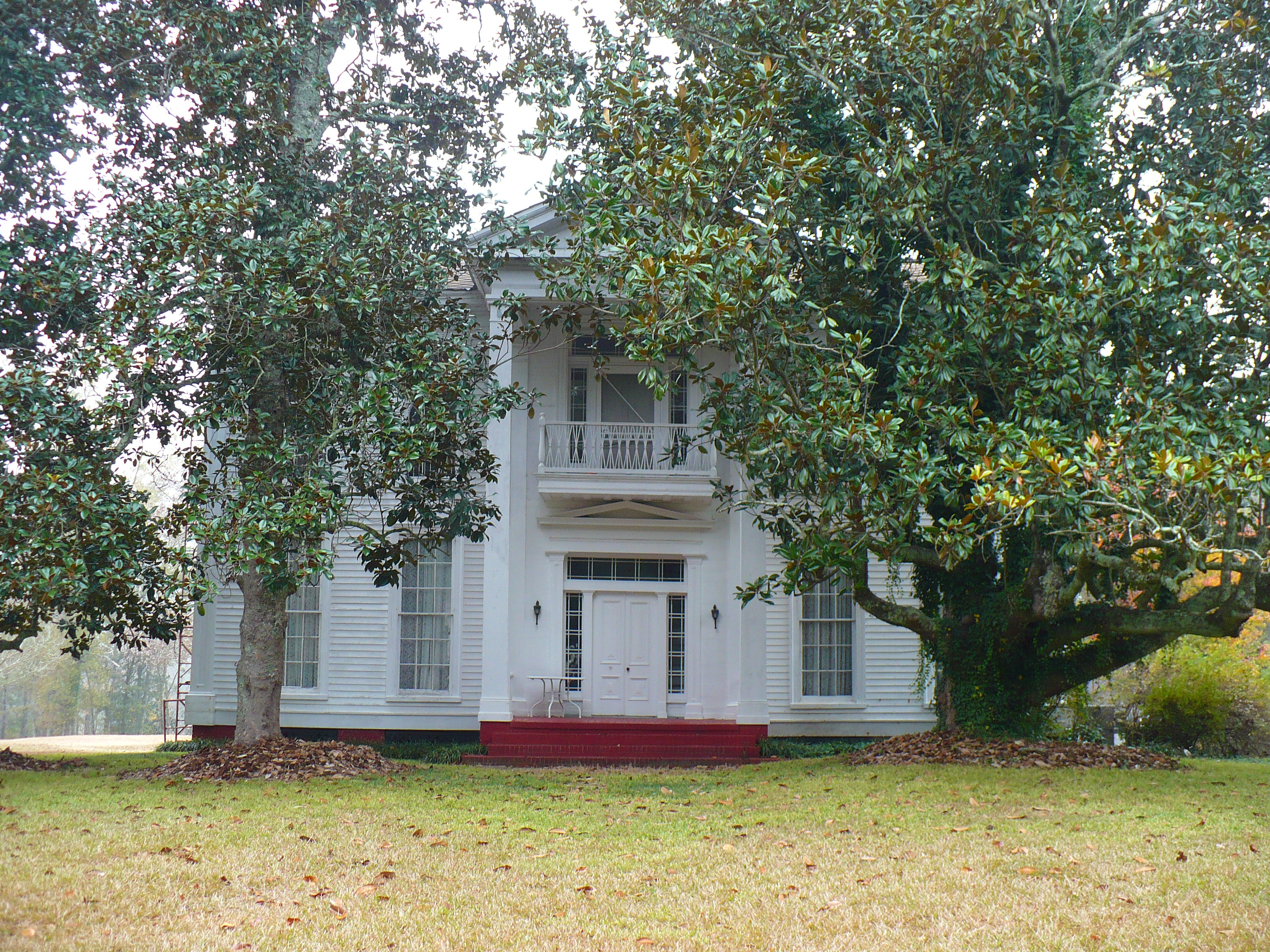 The William Poole House in Dayton, Marengo County, Alabama.